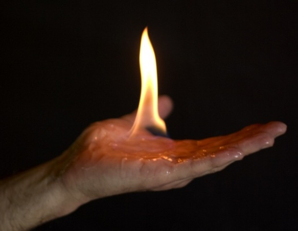 A person's hand is protected from flame by flame retardant gel